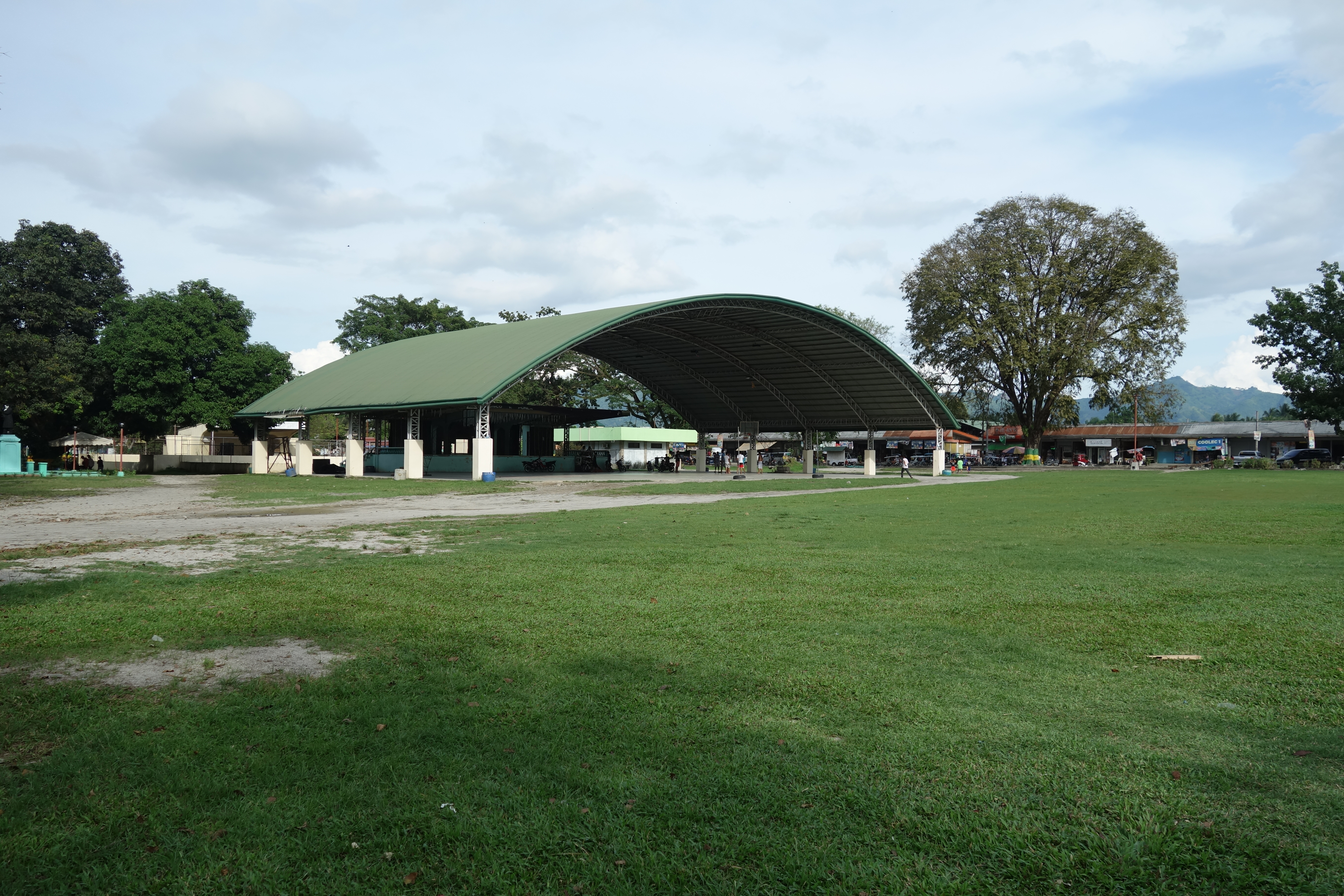 The sheltered basketball court and stage at the south end of the Banga Municipal Park, commonly called "The Plaza", between Quezon Avenue and Roxas Street in Banga, South Cotabato, Philippines. Basketball courts in the Philippines are often covered with sheds like this one, although I think this is the most beautiful.